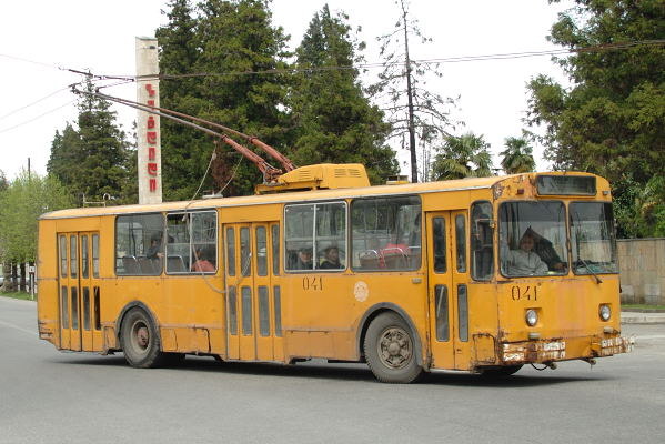 Trolleybus ZiU-9 in Sugdidi